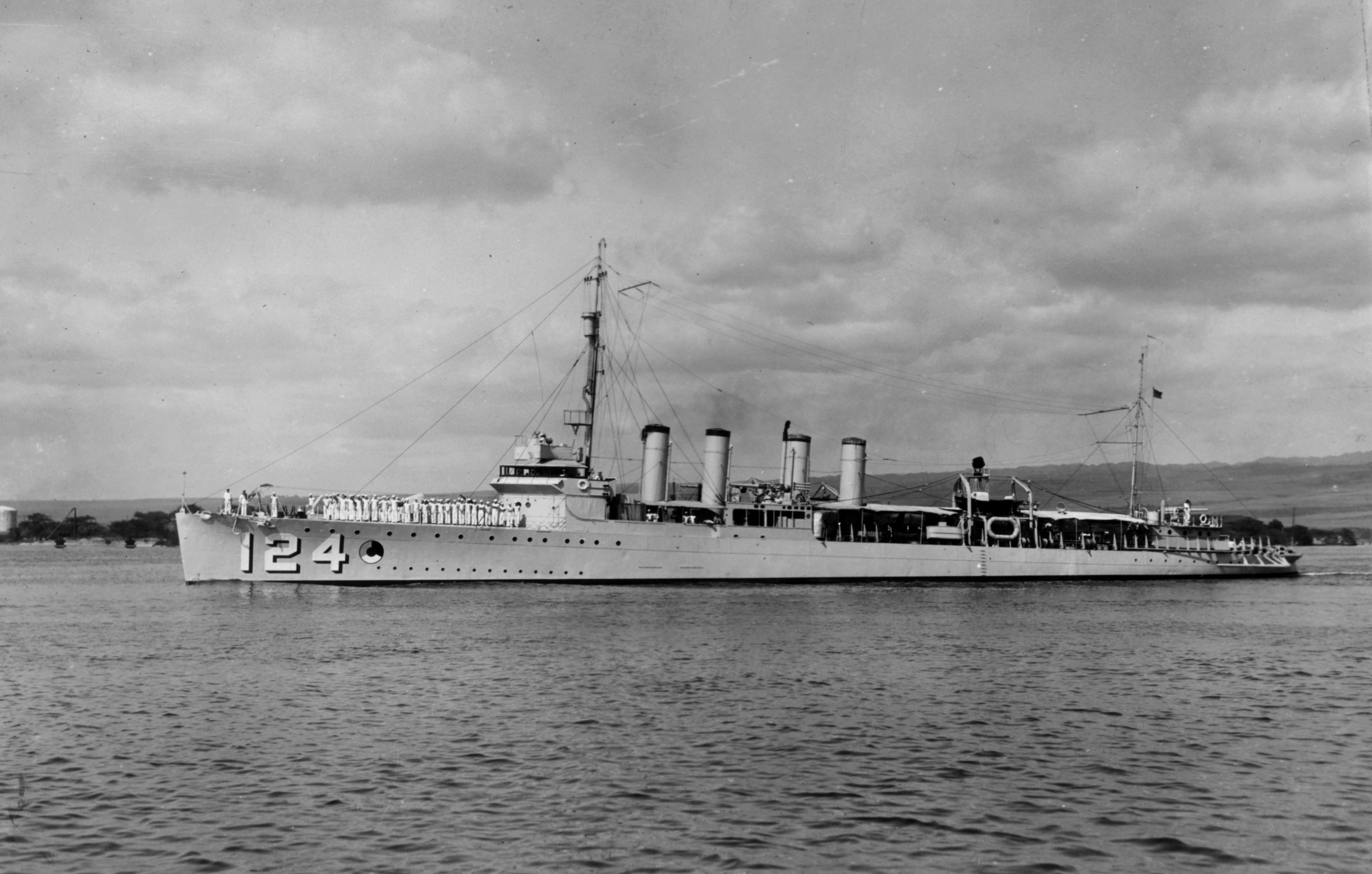 The U.S. Navy destroyer USS Ramsay (DD-124), at Pearl Harbor, T. H., circa 1930. Note that she is serving as a destroyer minelayer (DM), wearing the mine force insignia, yet retaining her DD-hull number (124).